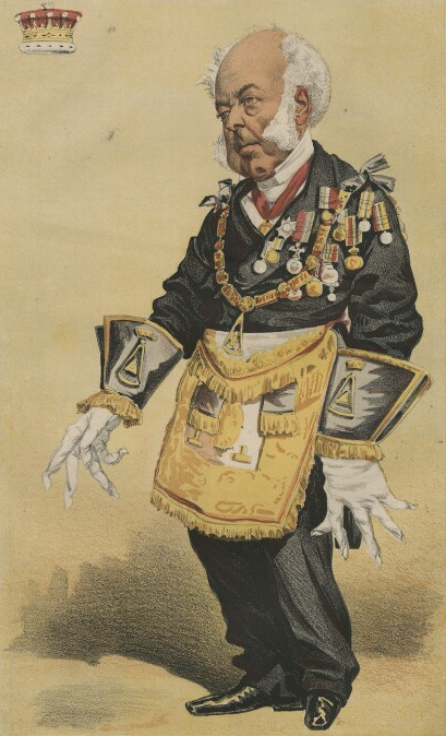 Caricature of Thomas Dundas, 2nd Earl of Zetland. Caption read "The Most Worshipful Grand Master".